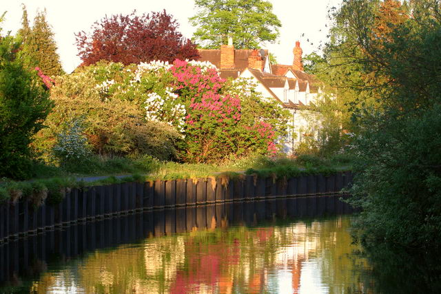 Colourful canal. Same view as 638476 but very different weather conditions.